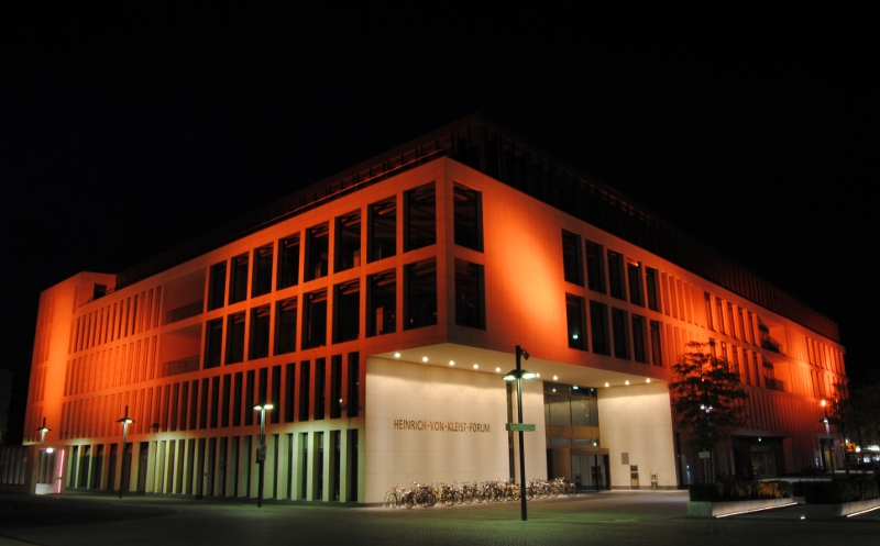 Heinrich von Kleist Forum, Hamm, Germany